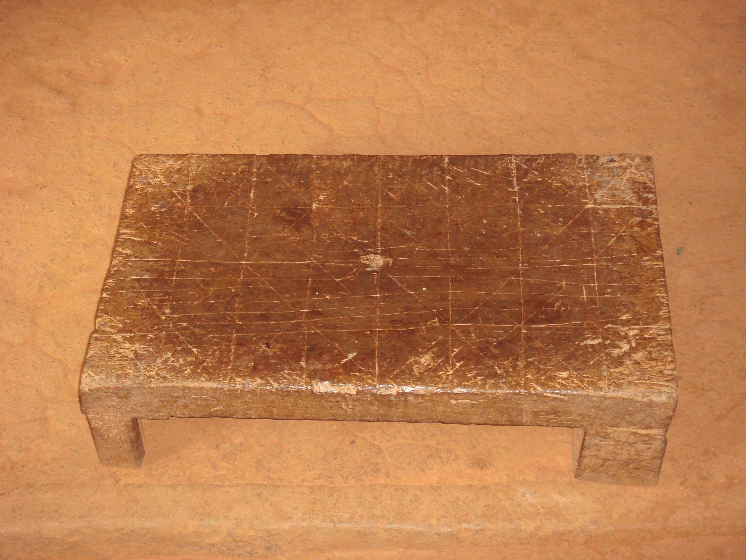 Royal fanorona board used by King Andrianampoinimerina, at Ambohimanga, Madagascar.